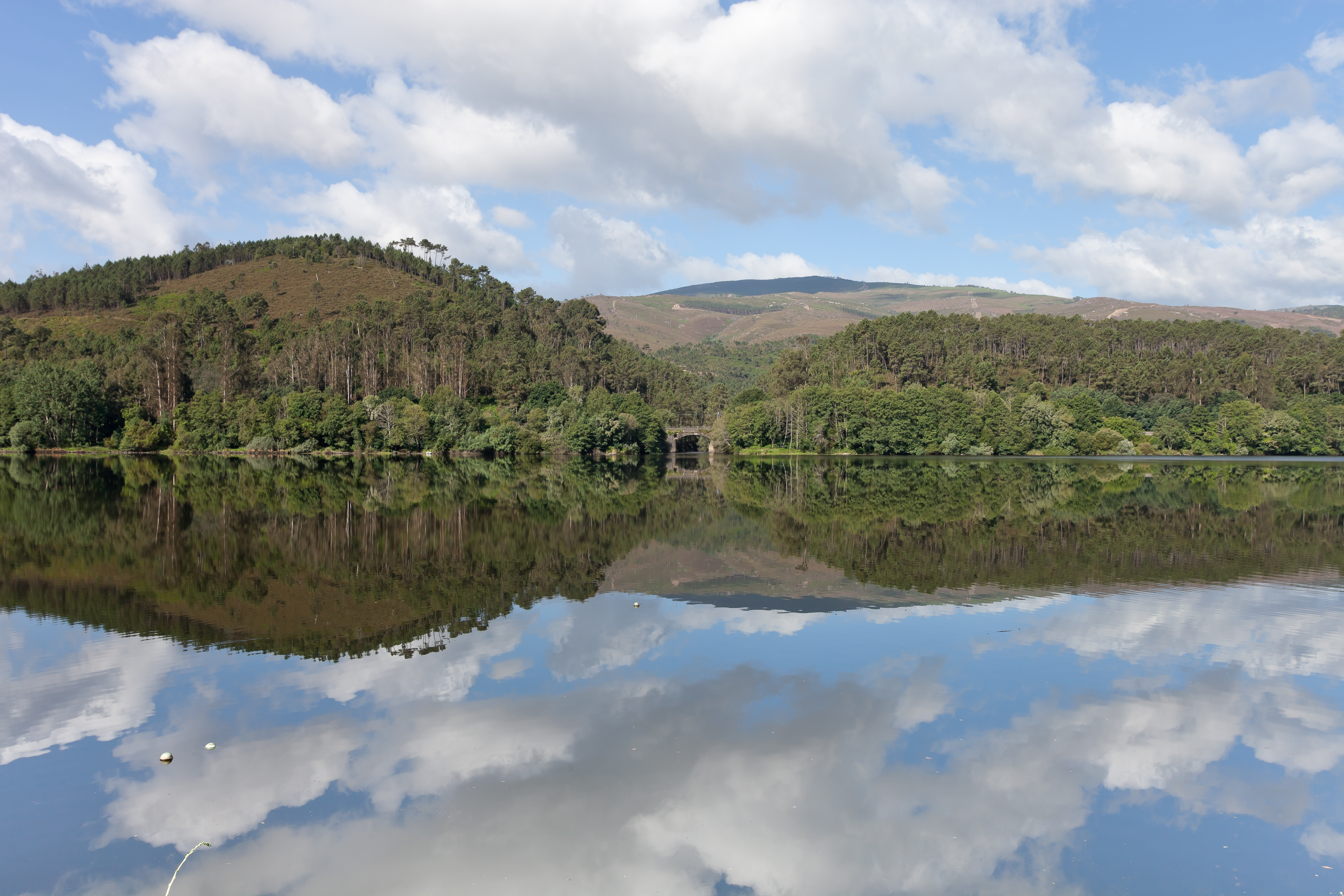 A Arnoia. Río Miño-8.jpg